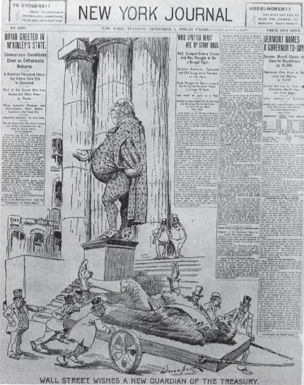 Front page of the New York Journal, September 1, 1896